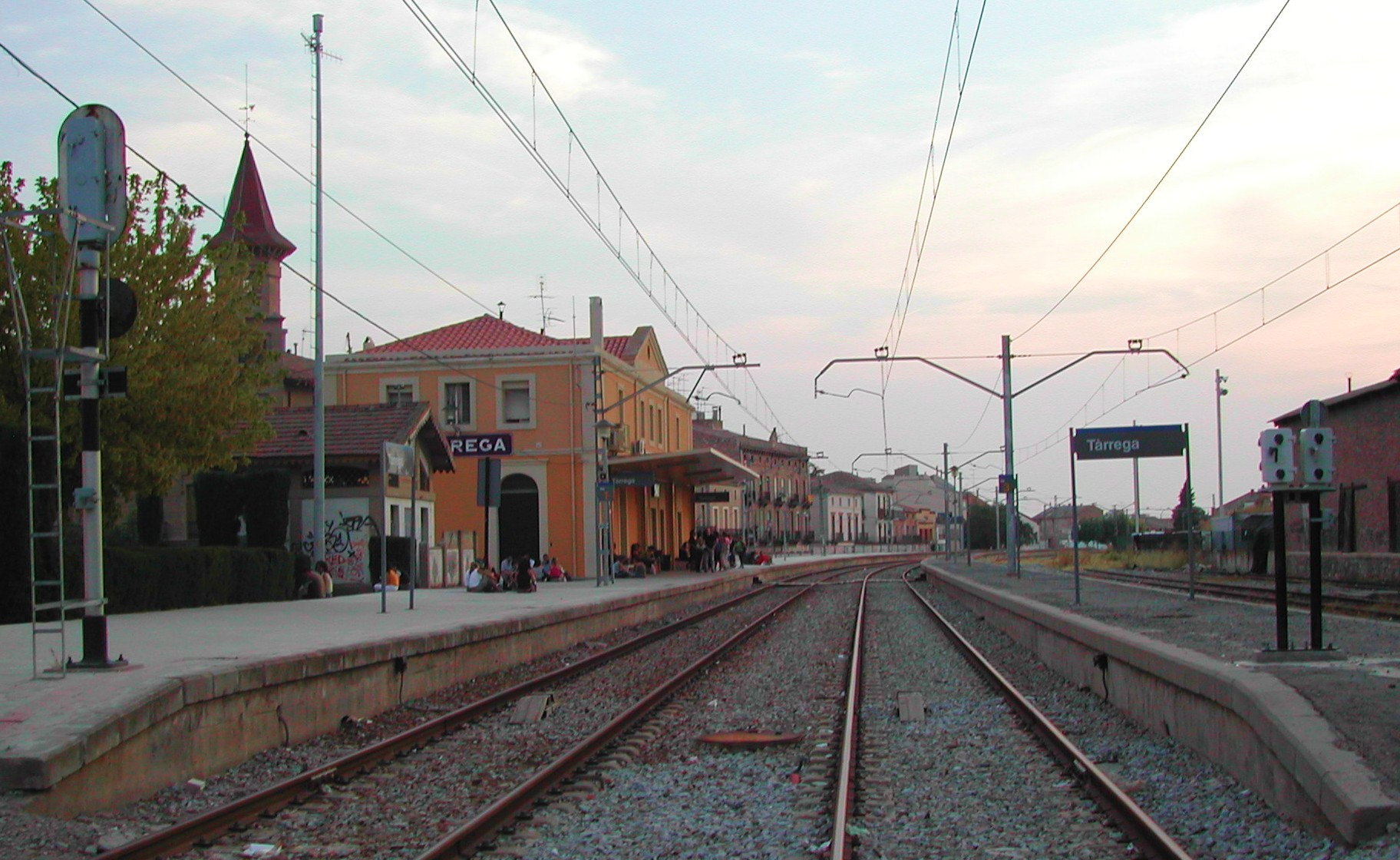 Tàrrega railway station building seen from the platform.